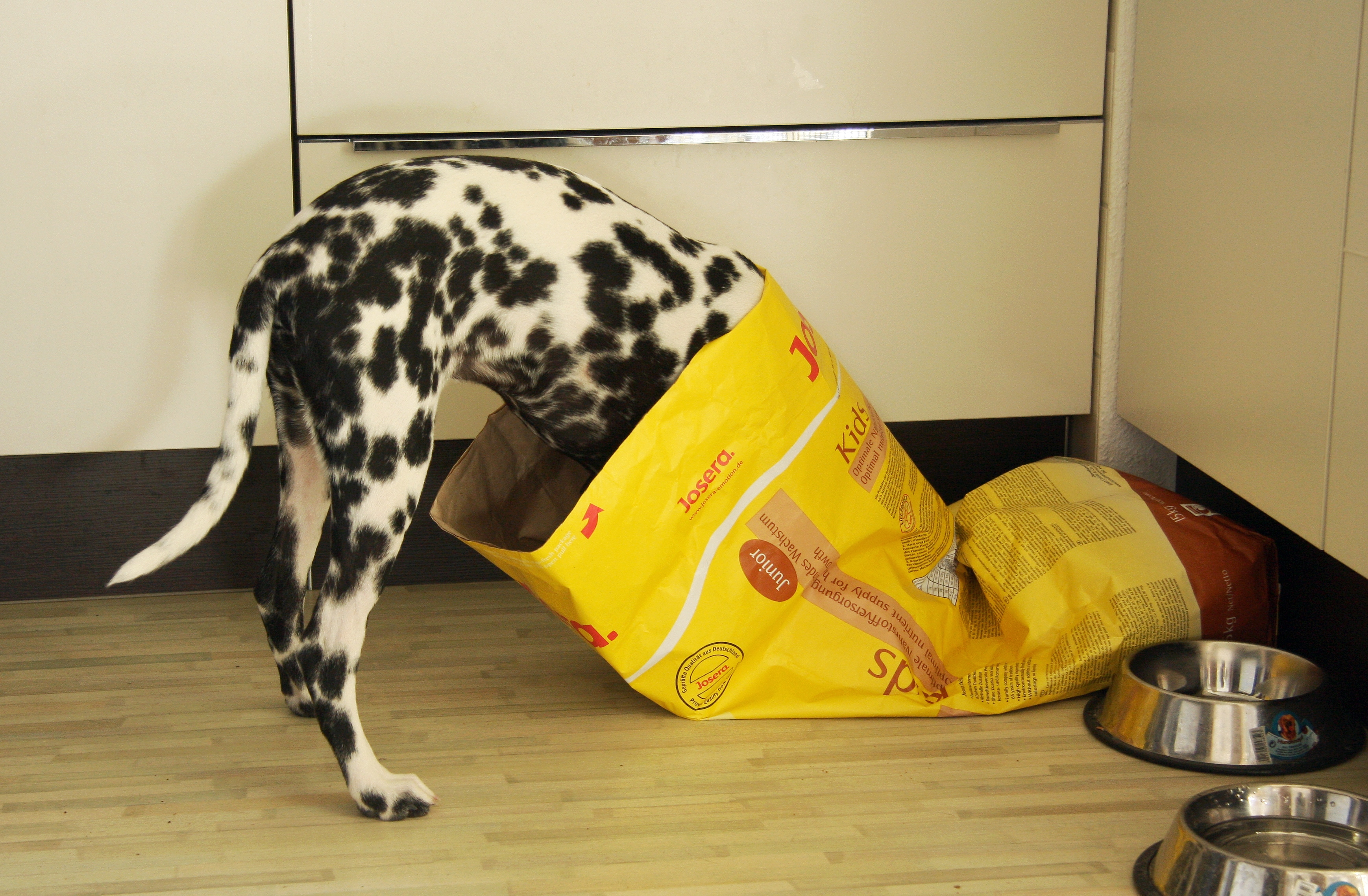 September 2011 Creative Commons Licence BY 2.0 Quellenangabe / Credit: Photo by Maja Dumat